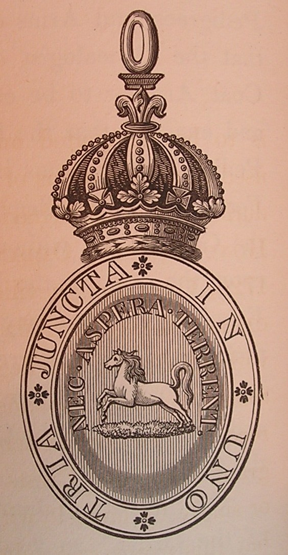 Badge of Blanc Coursier Herald, being the reverse of the Badge of the Genealogist of the Order of the Bath. The two offices were united from 1726 to 1857 when then latter was abolished.